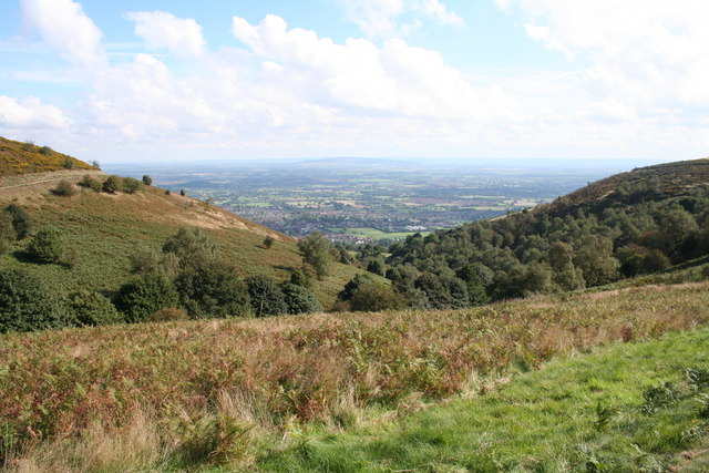 Green Valley Looking down from the path beneath Sugarloaf Hill to eastern edge of Malvern, the Severn Plain and Bredon Hill in the distance.